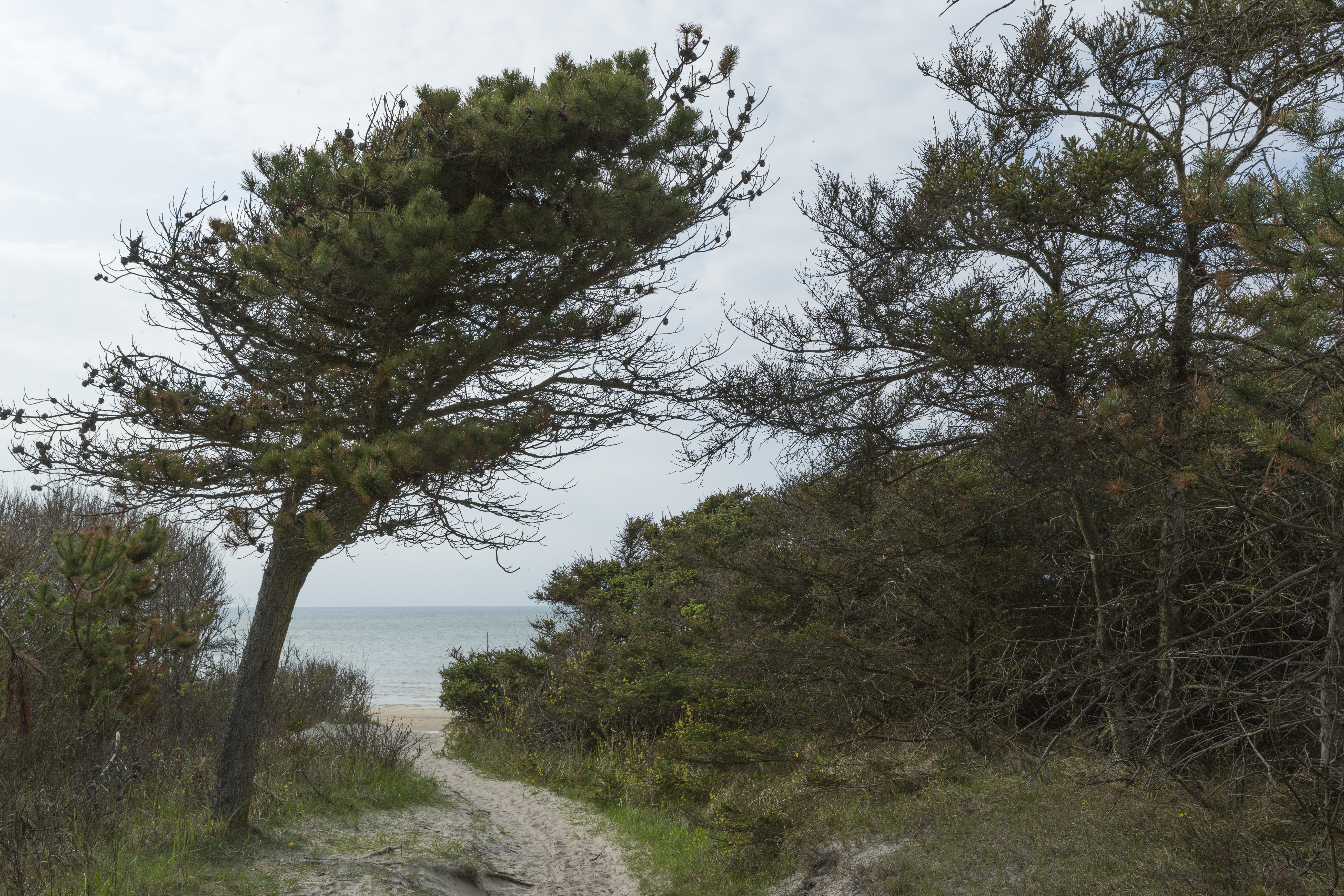 Sea view from Tversted Plantation at Skiveren